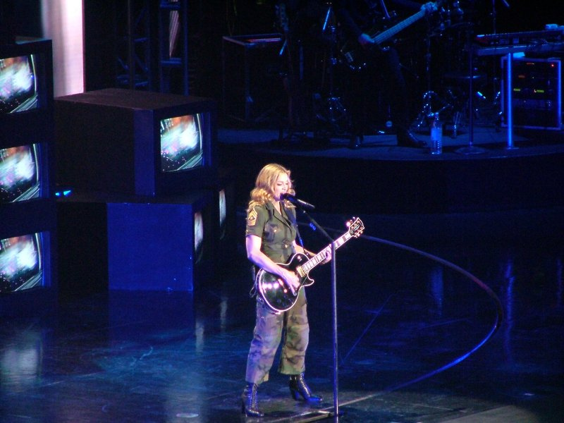 Madonna Concert